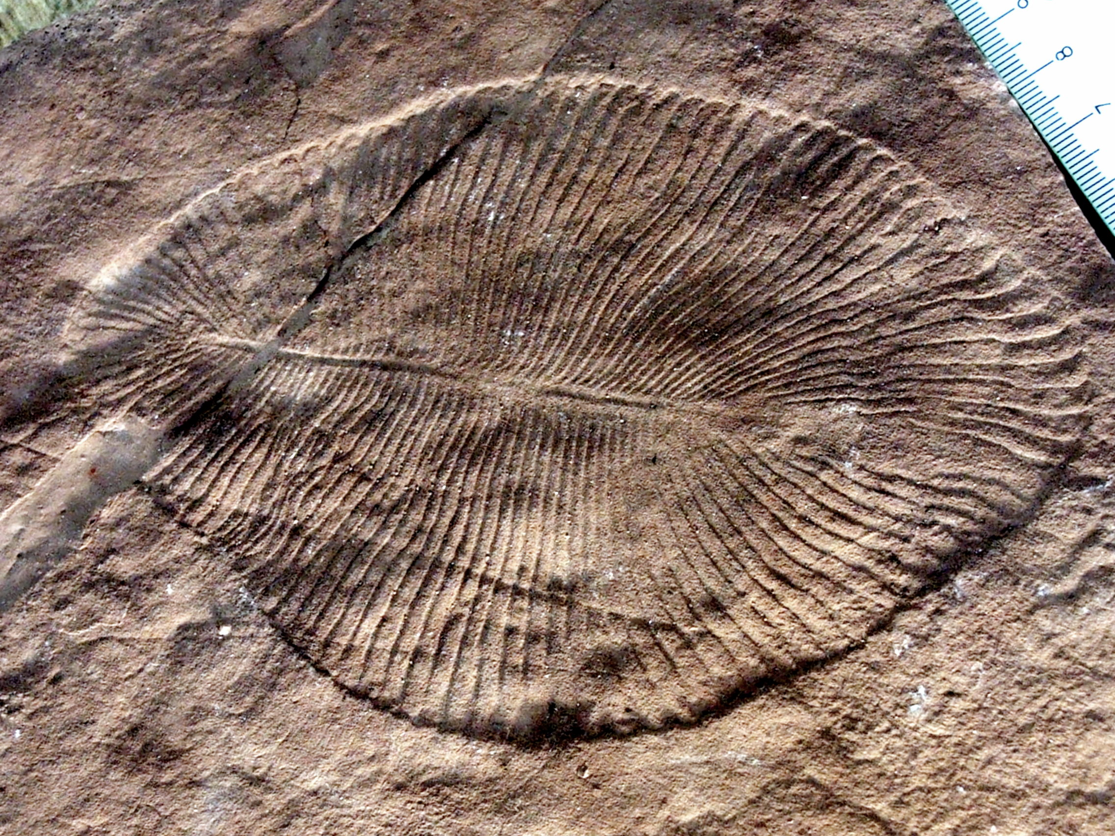 Cropped and digitally remastered version of another file masquerading as DickinsoniaCostata*.png (Can't remember which number should replace the *!)